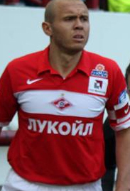 Mozart, Brazilian footballer.